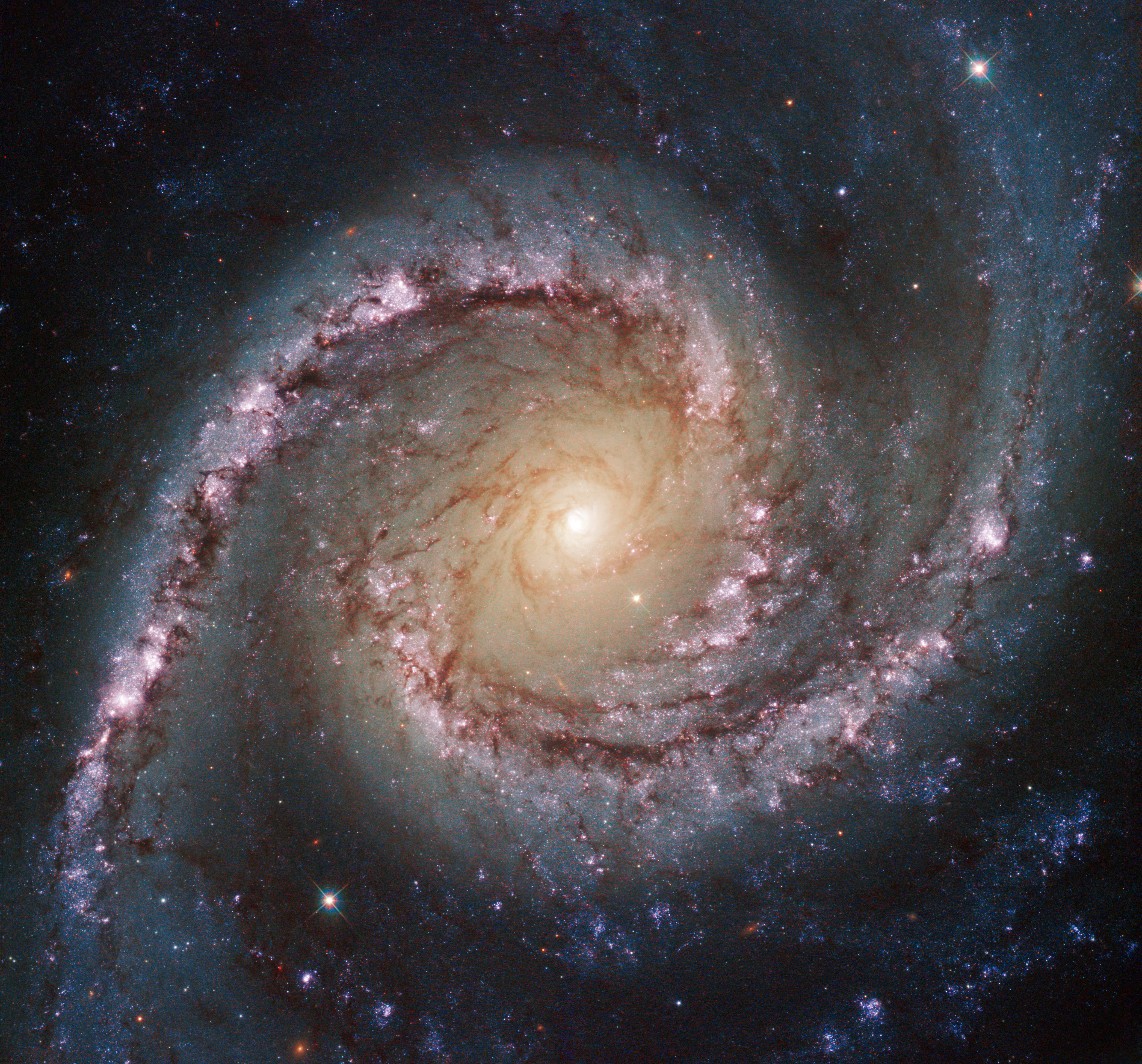 Grand swirls This new Hubble image shows NGC 1566, a beautiful galaxy located approximately 40 million light-years away in the constellation of Dorado (The Dolphinfish). NGC 1566 is an intermediate spiral galaxy, meaning that while it does not have a well defined bar-shaped region of stars at its centre — like barred spirals — it is not quite an unbarred spiral either (heic9902o). The small but extremely bright nucleus of NGC 1566 is clearly visible in this image, a telltale sign of its membership of the Seyfert class of galaxies. The centres of such galaxies are very active and luminous, emitting strong bursts of radiation and potentially harbouring supermassive black holes that are many millions of times the mass of the Sun. NGC 1566 is not just any Seyfert galaxy; it is the second brightest Seyfert galaxy known. It is also the brightest and most dominant member of the Dorado Group, a loose concentration of galaxies that together comprise one of the richest galaxy groups of the southern hemisphere. This image highlights the beauty and awe-inspiring nature of this unique galaxy group, with NGC 1566 glittering and glowing, its bright nucleus framed by swirling and symmetrical lavender arms. This image was taken by Hubble’s Wide Field Camera 3 (WFC3) in the near-infrared part of the spectrum. A version of the image was entered into the Hubble’s Hidden Treasures image processing competition by Flickr user Det58. Credit: ESA/Hubble & NASA Acknowledgement: Flickr user Det58 About the Object Name: NGC 1566 Type: • Local Universe : Galaxy : Type : Spiral • Local Universe : Galaxy : Activity : AGN : Seyfert • X - Galaxies Images/Videos Distance: 40 million light years Colours & filters Band Wavelength Telescope Ultraviolet UV 275 nm Hubble Space Telescope WFC3 Ultraviolet U 336 nm Hubble Space Telescope WFC3 Optical B 438 nm Hubble Space Telescope WFC3 Optical V 555 nm Hubble Space Telescope WFC3 Infrared I 814 nm Hubble Space Telescope WFC3 .